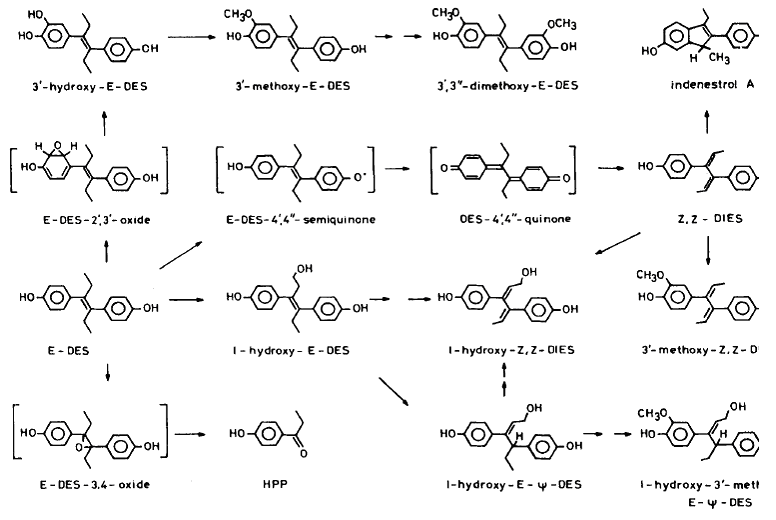 The metabolism of diëthylstilbestrol by oxidation